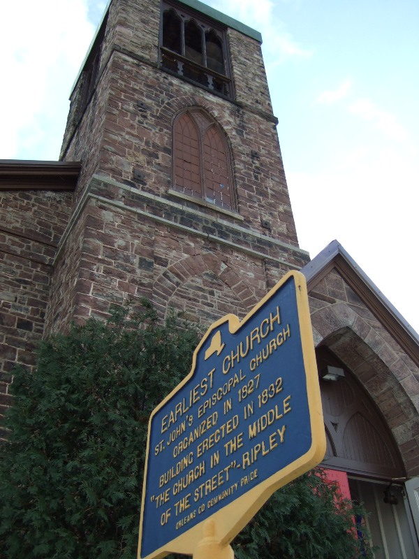 St. John's Episcopal Church, Medina, Orleans County, NY with historical marker. Church erected in 1832 and was listed on Ripley's Believe It or Not as the "Church in the Middle of the Street".